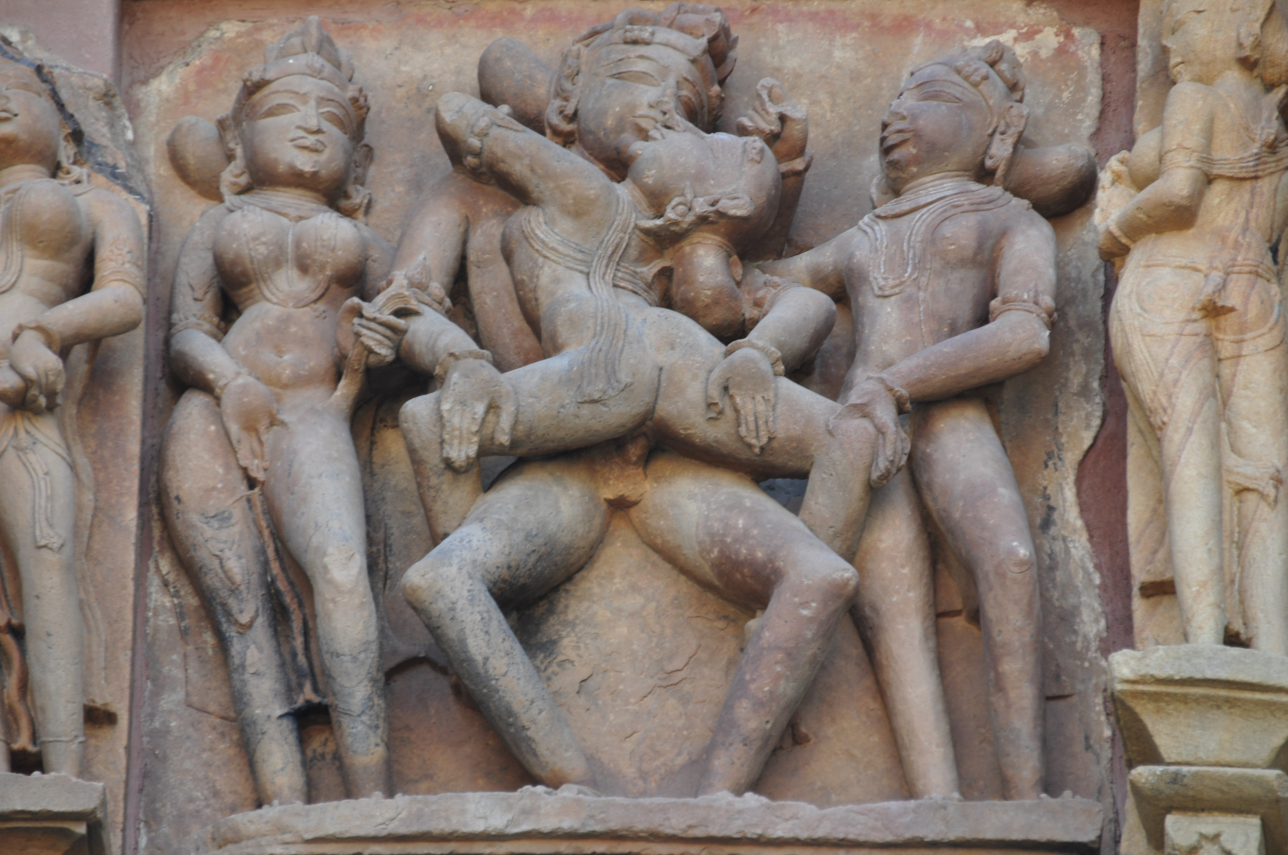 Khajuraho Group of Monuments, Madhya Pradesh, Chhatarpur District